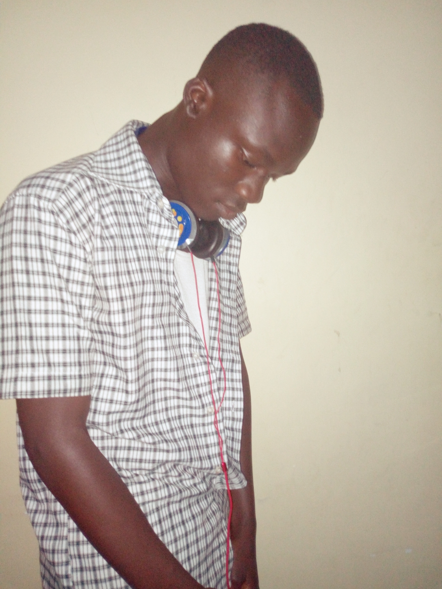 Universal média group photo shoot